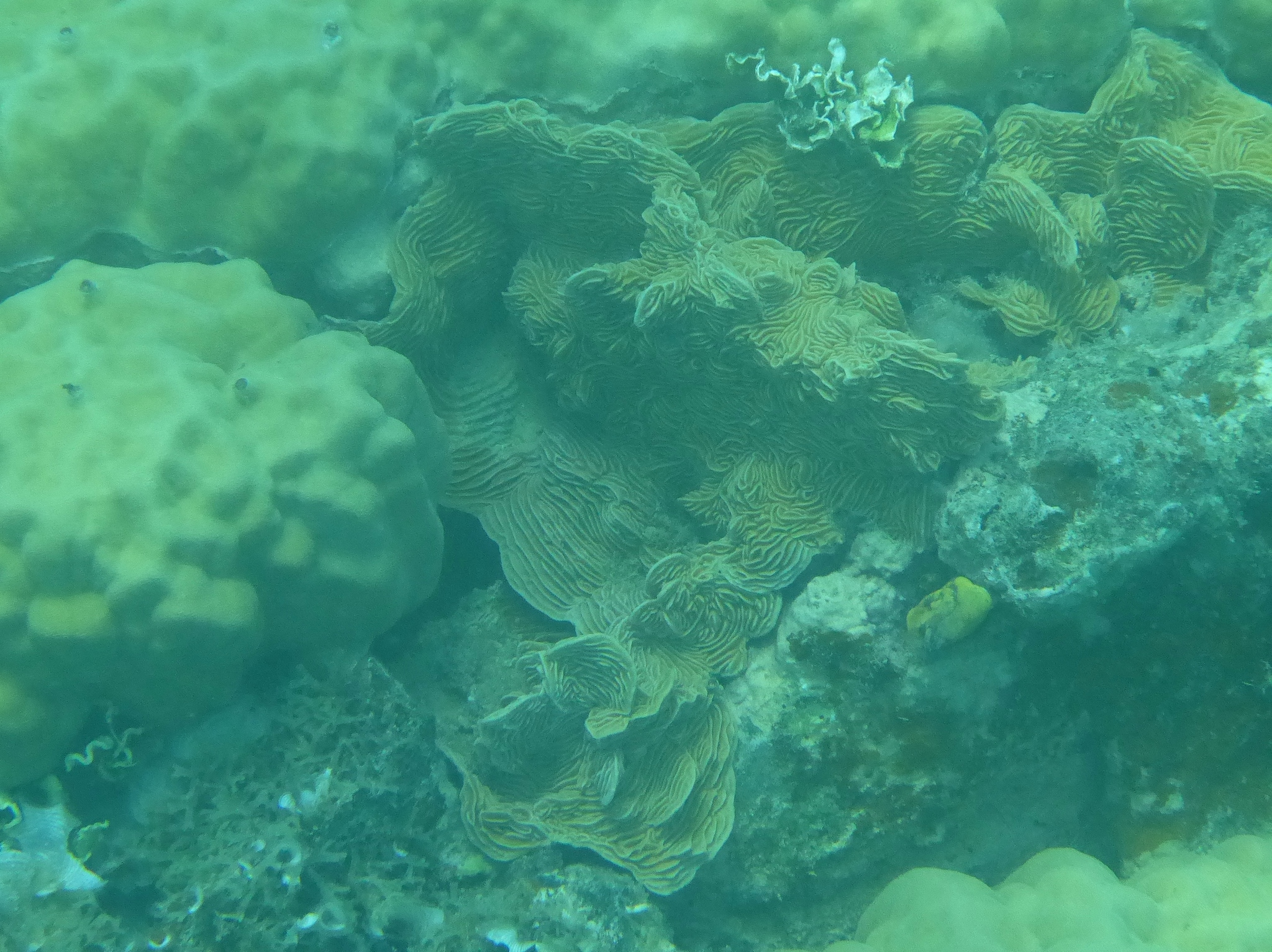 Pachyseris gemmae. Species of marine invertebrate.